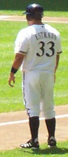 Milwaukee Brewers Major League Baseball player Johnny Estrada. Highly cropped from original